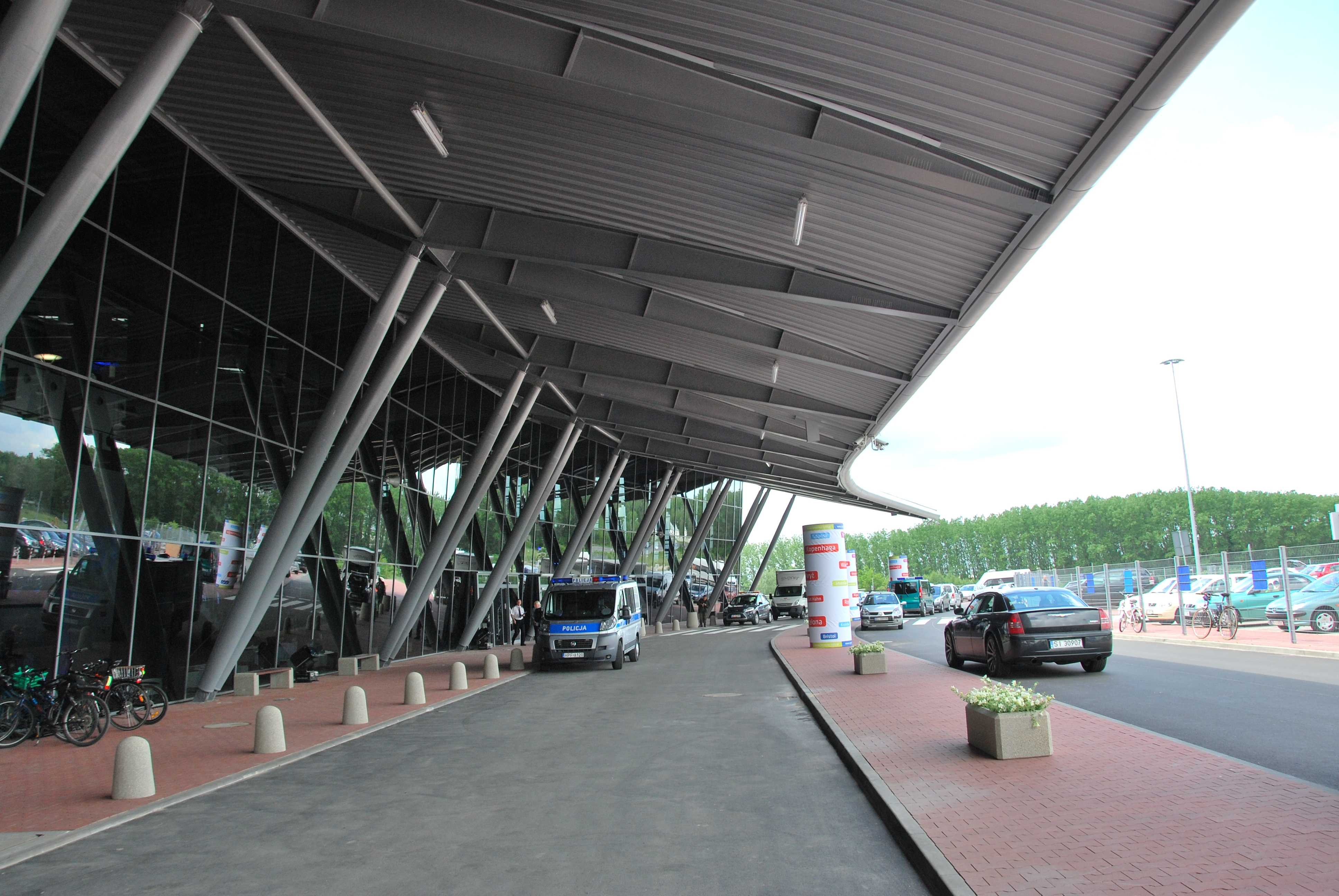 Front of the terminal, Łódź Airport